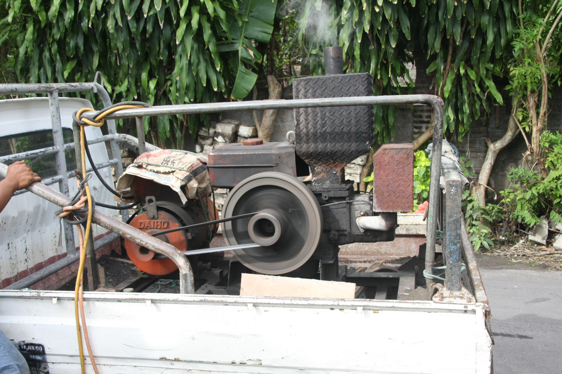 Diesel generator for welding used when no electrical power is available. This sample is seen in Bali.